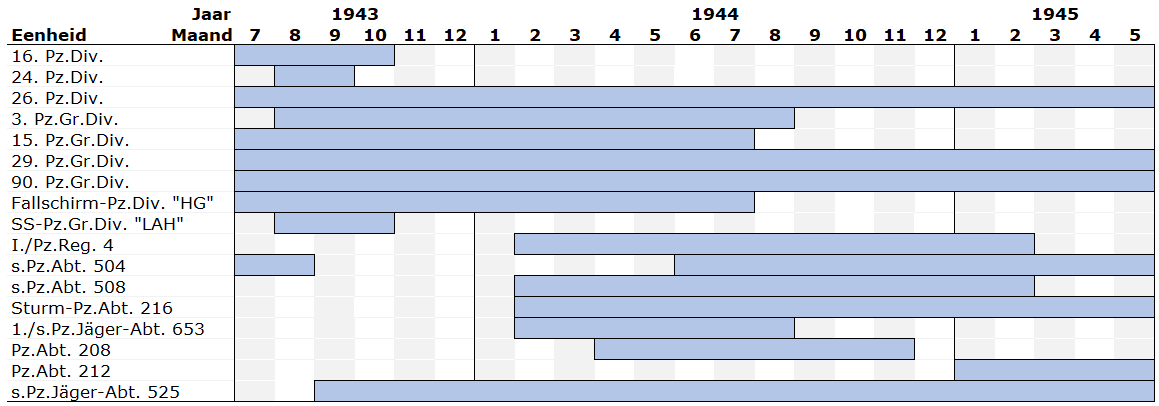 Table showing presence of German Panzer units in Italy - 1943/45